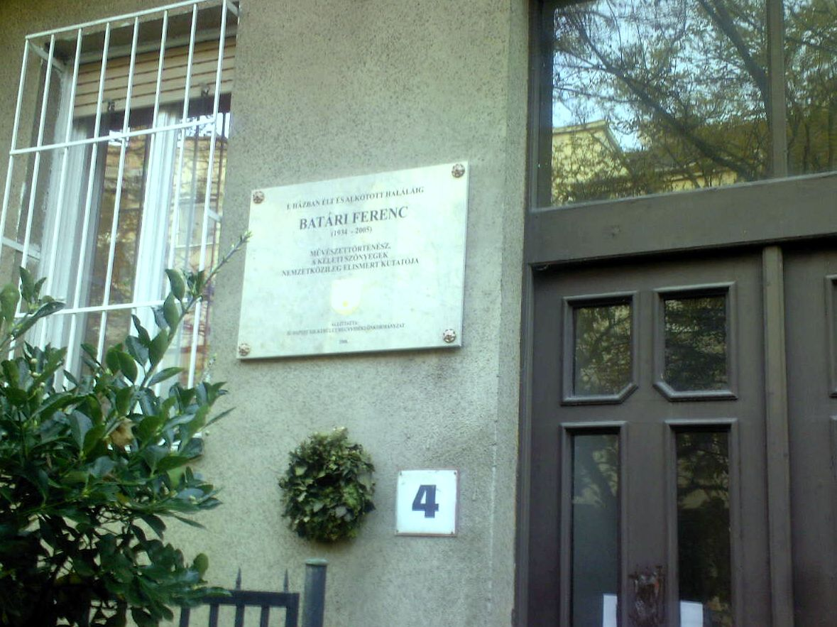 Ferenc Batári commemorative plaque in Budapest District XII, Hollósy Simon Street No 4